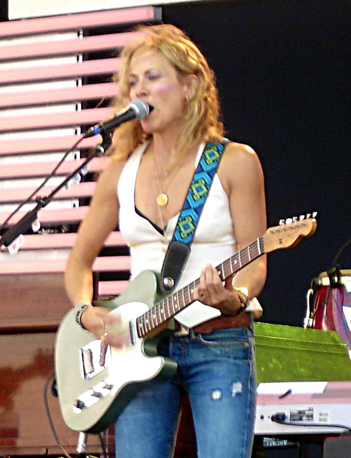 Sheryl Crow performing at the Crossroads Guitar Festival in 2007